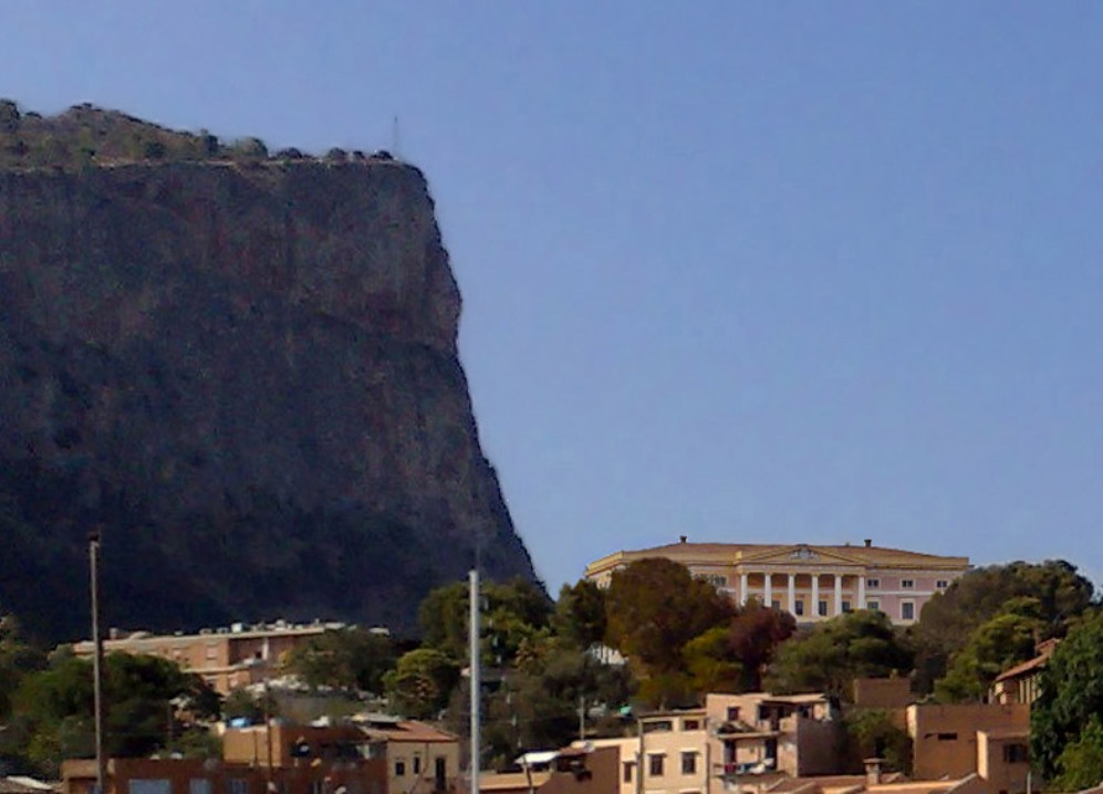 Neoclassical Villa Belmonte all'Acquasanta in Palermo by Giuseppe Venanzio Marvuglia (1729–1814).